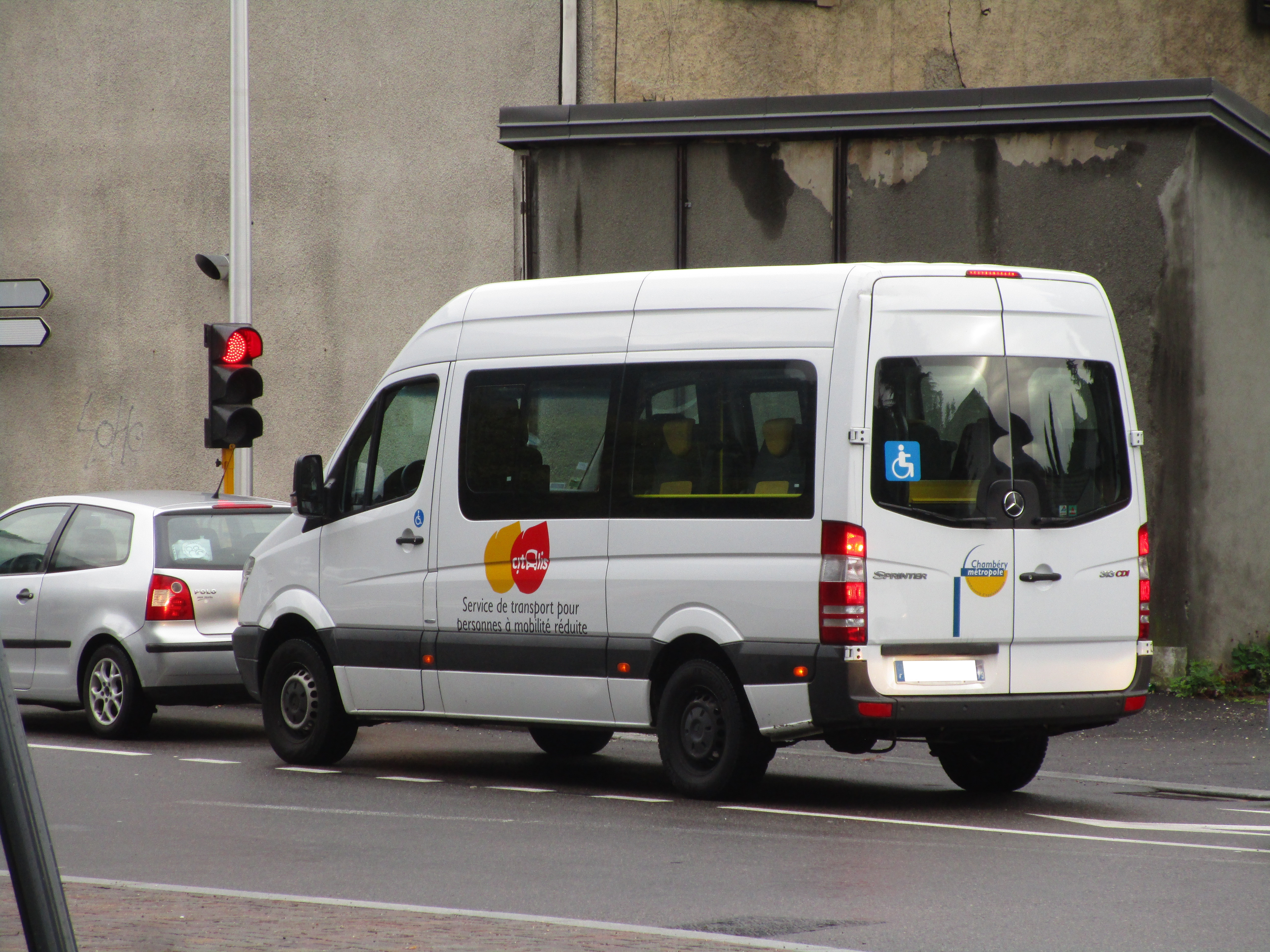 The Mercedes-Benz Sprinter n°256 of the Citalis unit (Stac network) in Challes-les-Eaux on October 14, 2016.